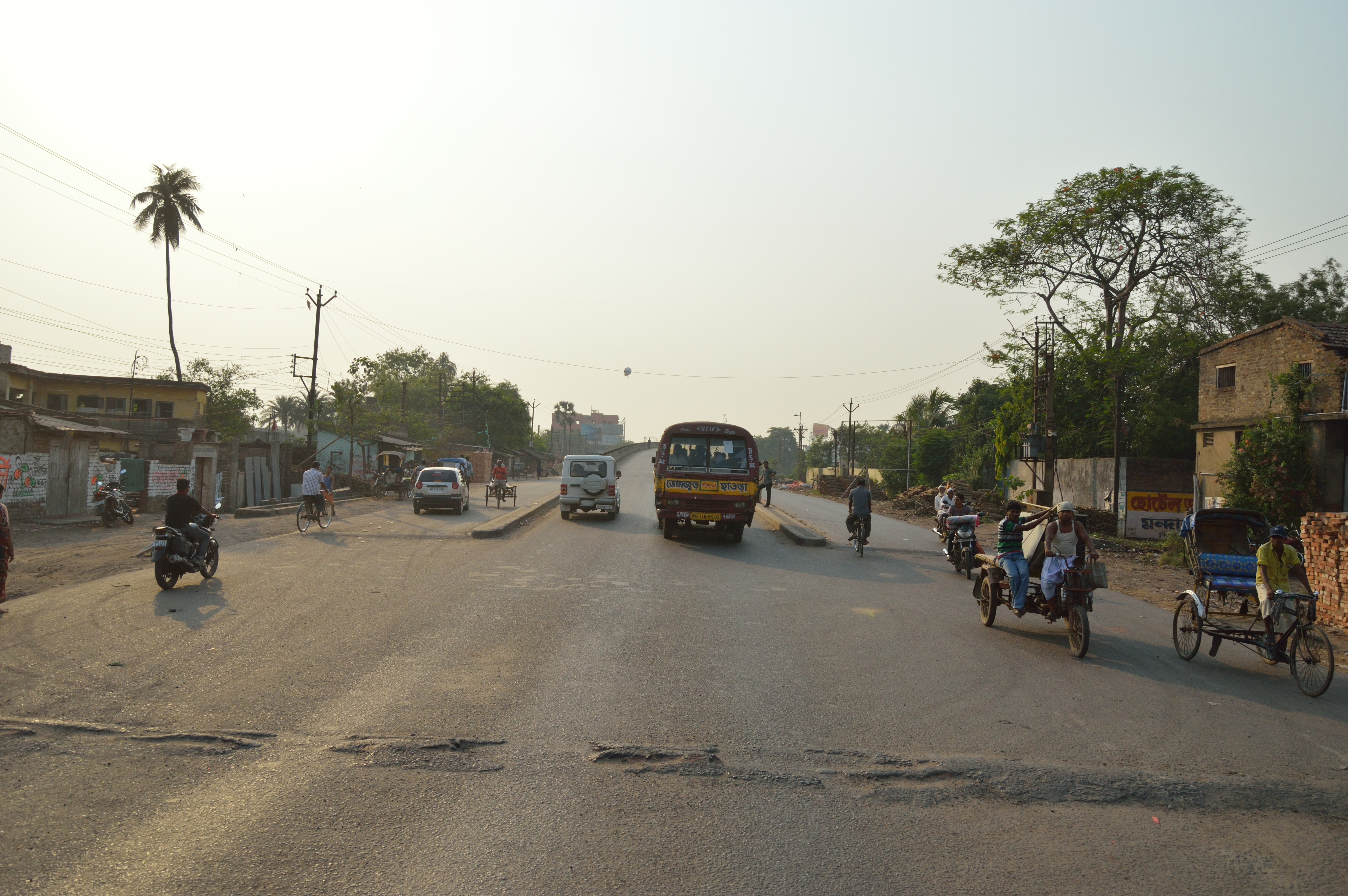 Photographed in Howrah, West Bengal, India.